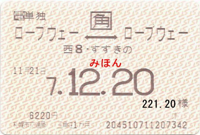 Sapporo City Transportation Bureau(Sapporo Streetcar) monthly ticket